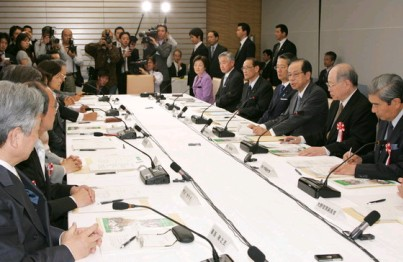 Yasuo Fukuda, Prime Minister, attended a meeting of the Education Rebuilding Council with Kisaburō Tokai, Minister of Education, Culture, Sports, Science and Technology, and Nobutaka Machimura, Chief Cabinet Secretary, at the Prime Minister's Official Residence in Chiyoda Ward, Tōkyō Metropolis on October 23, 2007.